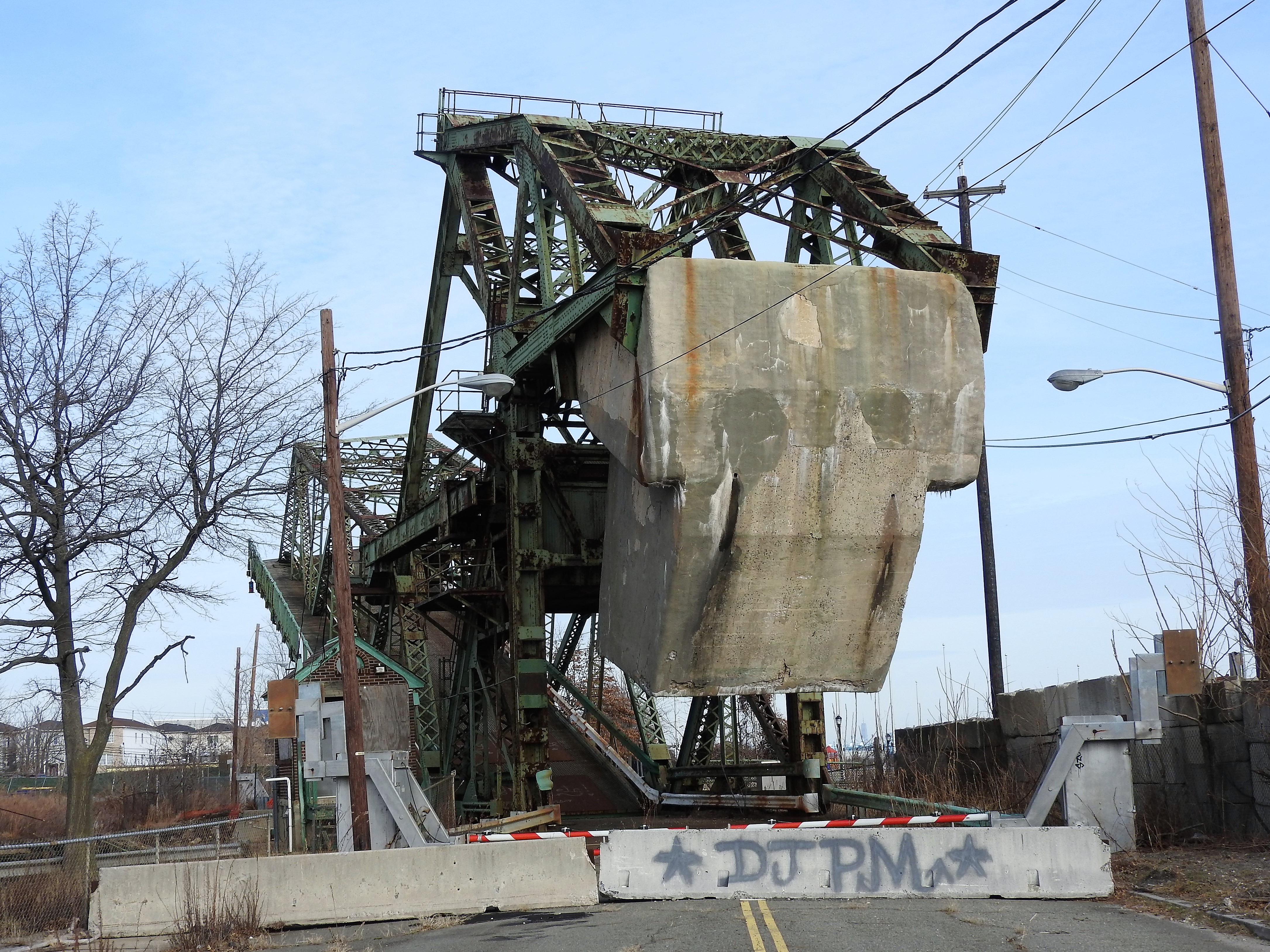 South Front Street Bridge - Looking east on a mostly sunny midday.